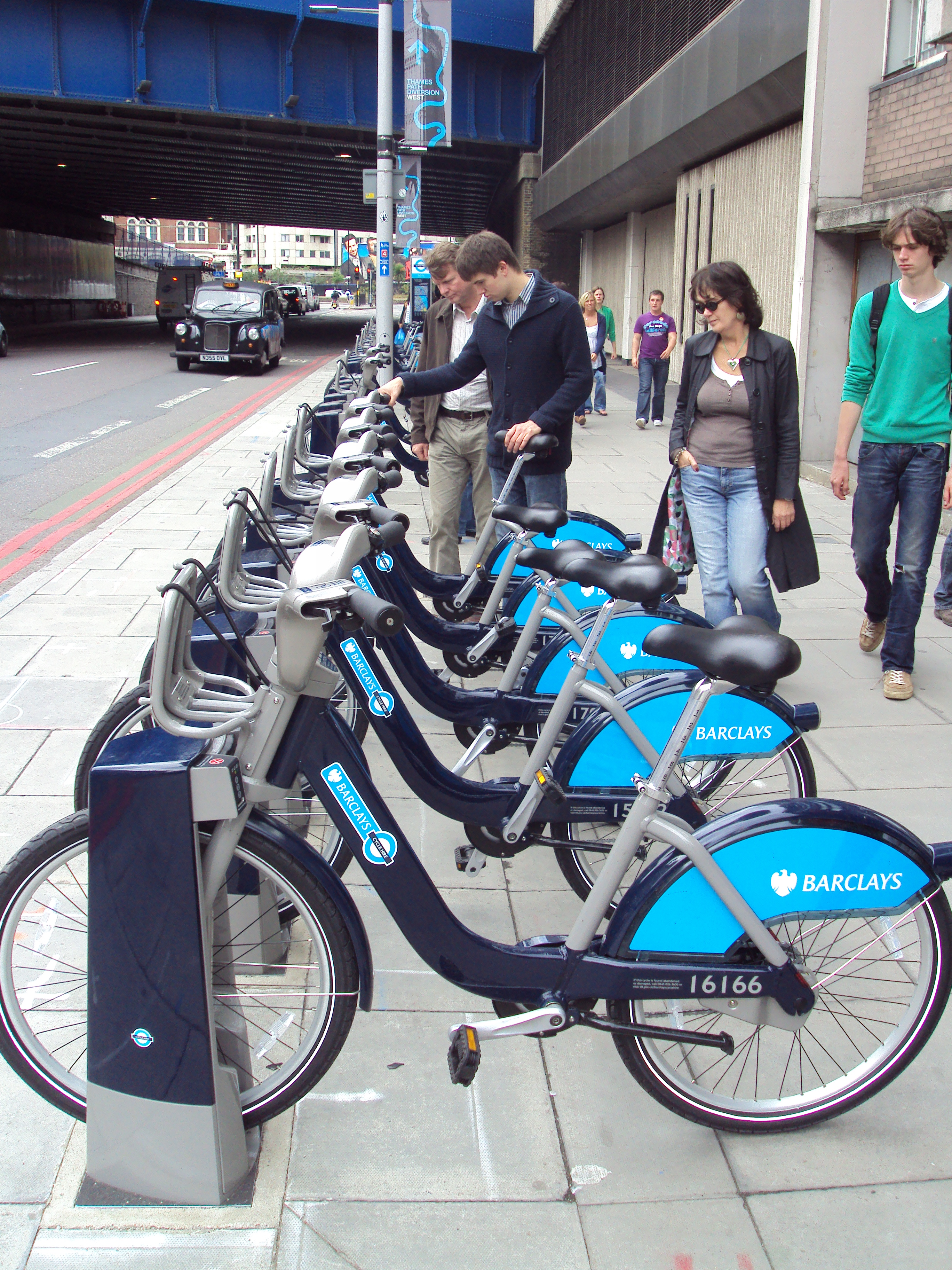 Cycle hire point on Southwark Street, London.